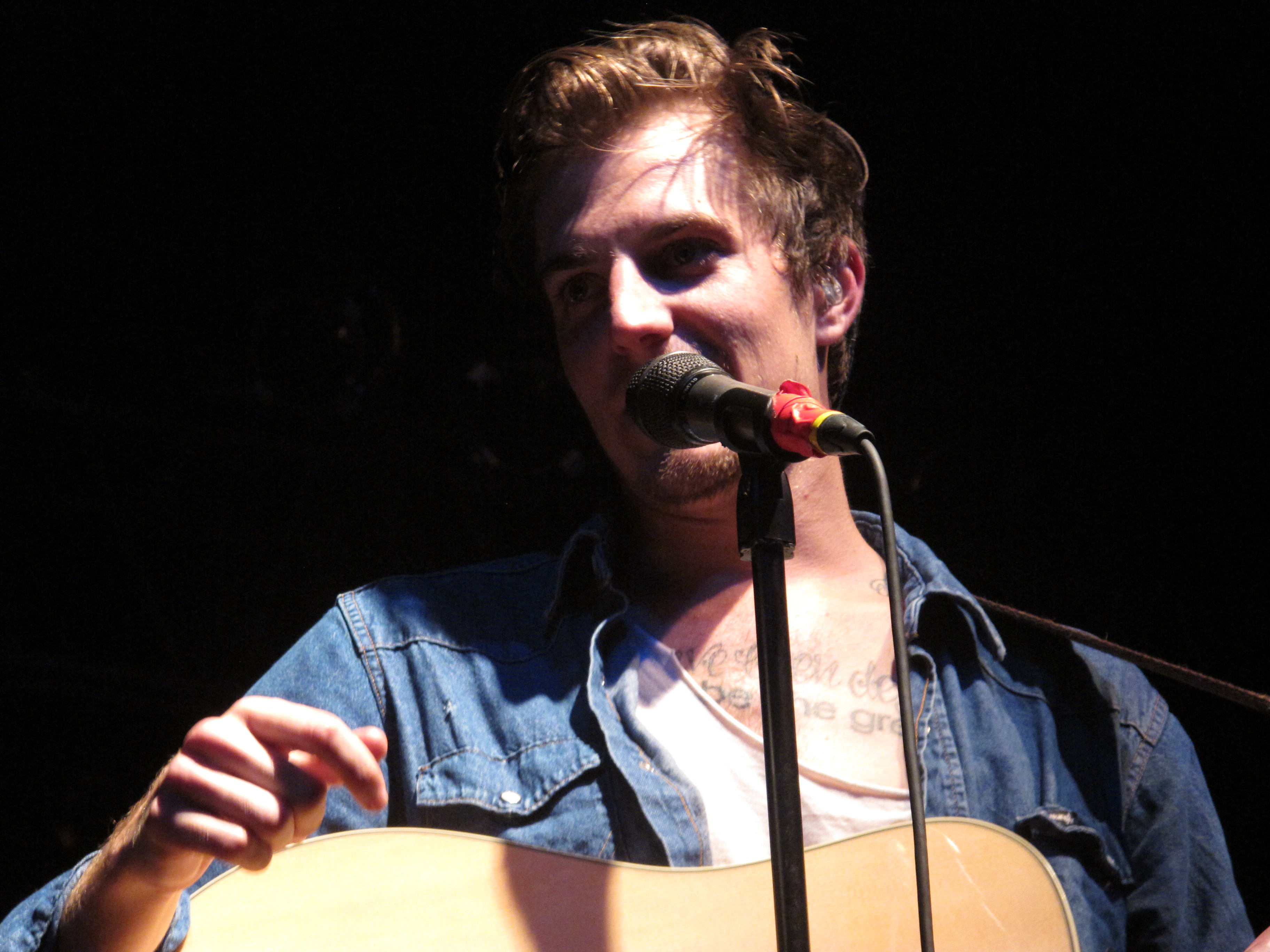 The Maine